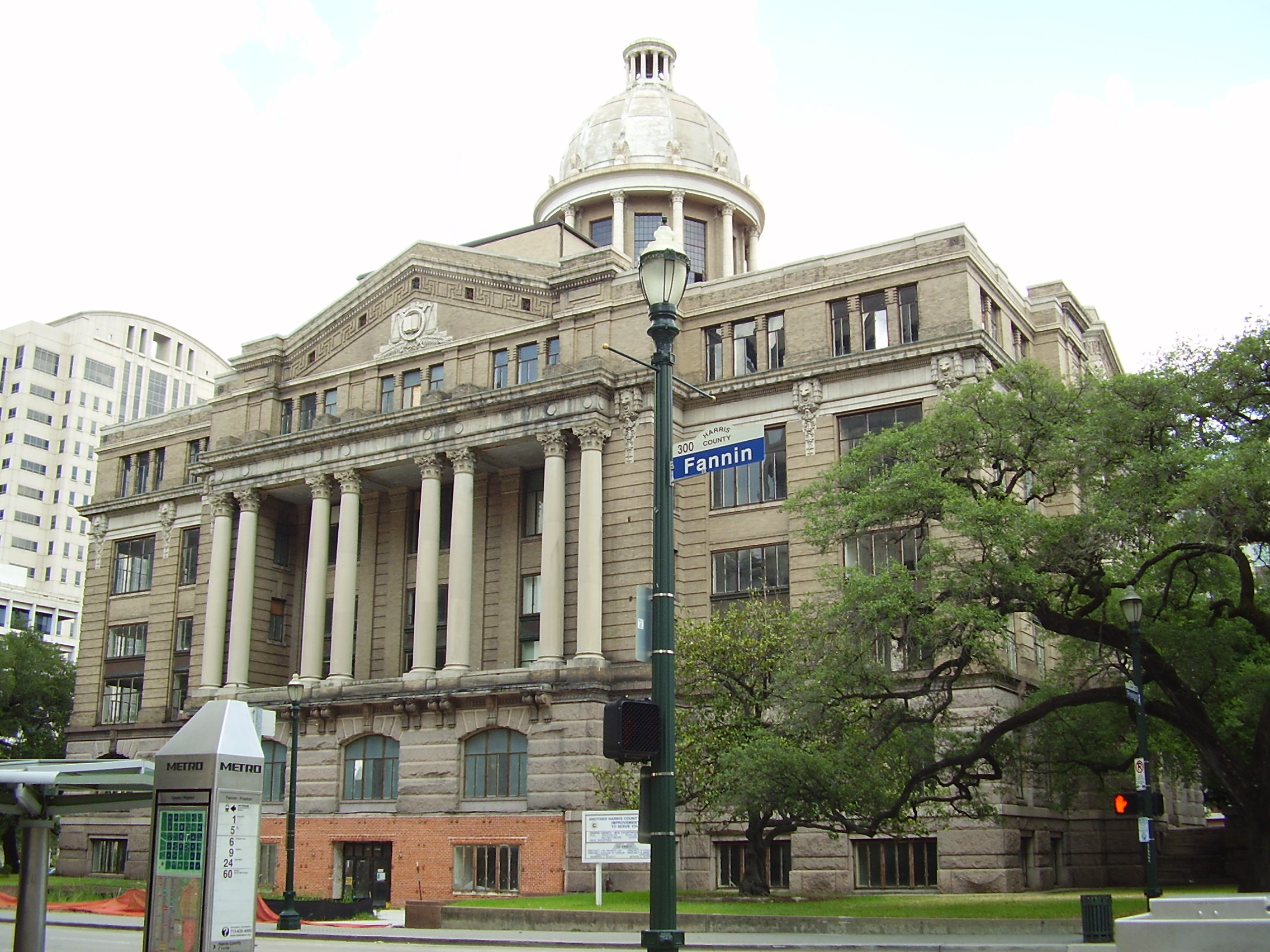 Harris County 1910 Courthouse